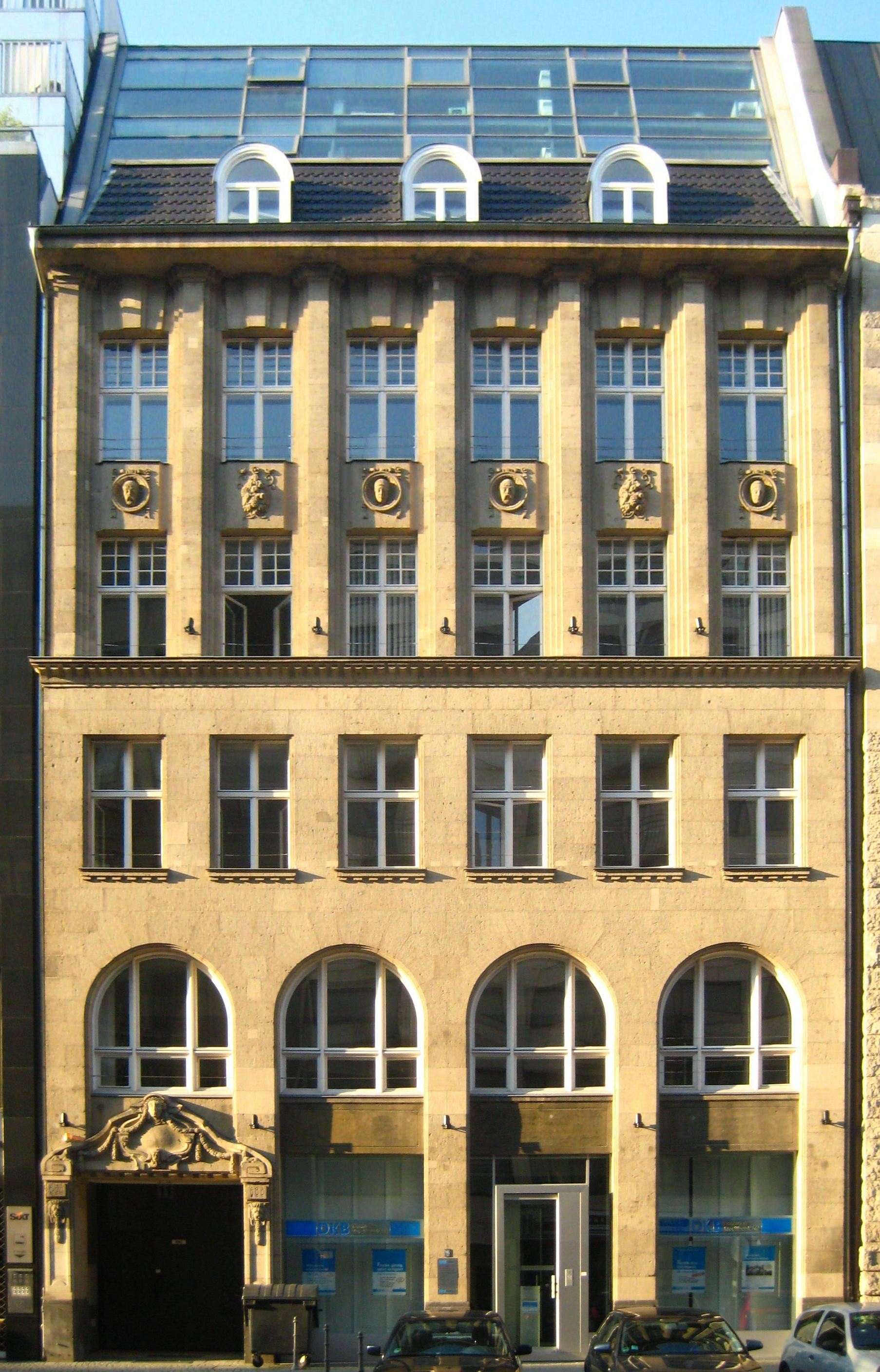 Commercial and residential building at Kronenstraße No. 11 in Berlin-Mitte, built 1911 to 1912 by the architects Heilbrun & Seiden for the German-Asiatic Bank. The building is characterized by the reduced architectural forms of Neoclassicism typical for commercial buildings in Berlin constructed shortly before WWI, when architects dispensed with the rich ornaments of Art Nouveau and Neo-Baroque, which were popular just a few years earlier. The rooms on the first floor are now used by the German Credit Bank. The building has been designated as a historic landmark.